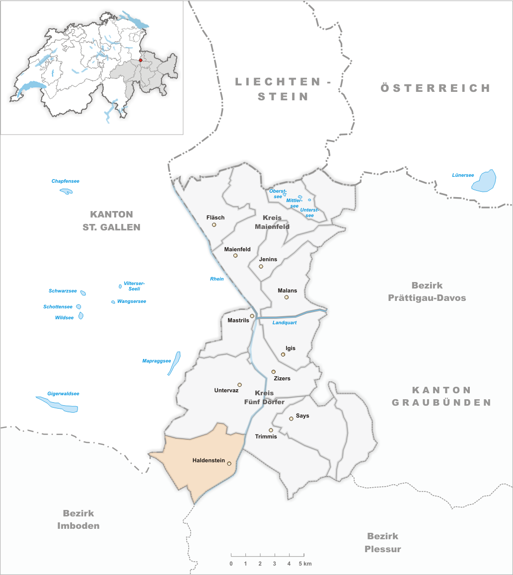 Municipality Haldenstein